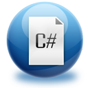 CSharp icon